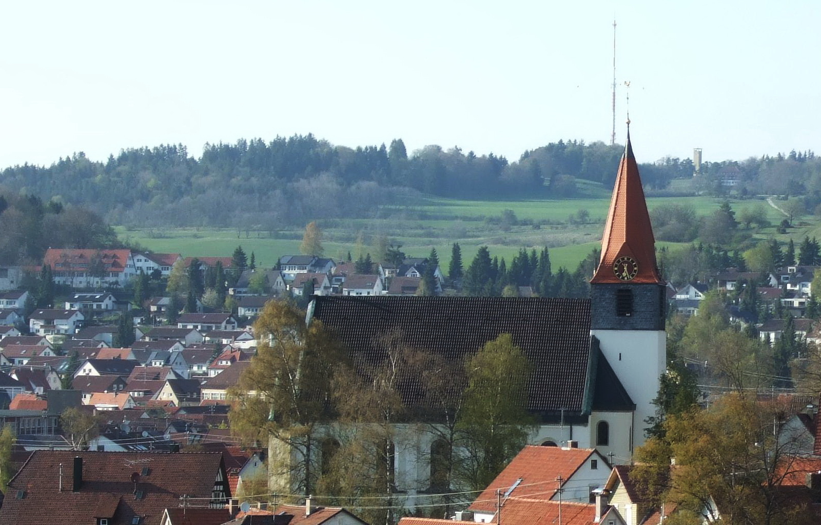 protestantic church in Onstmettingen